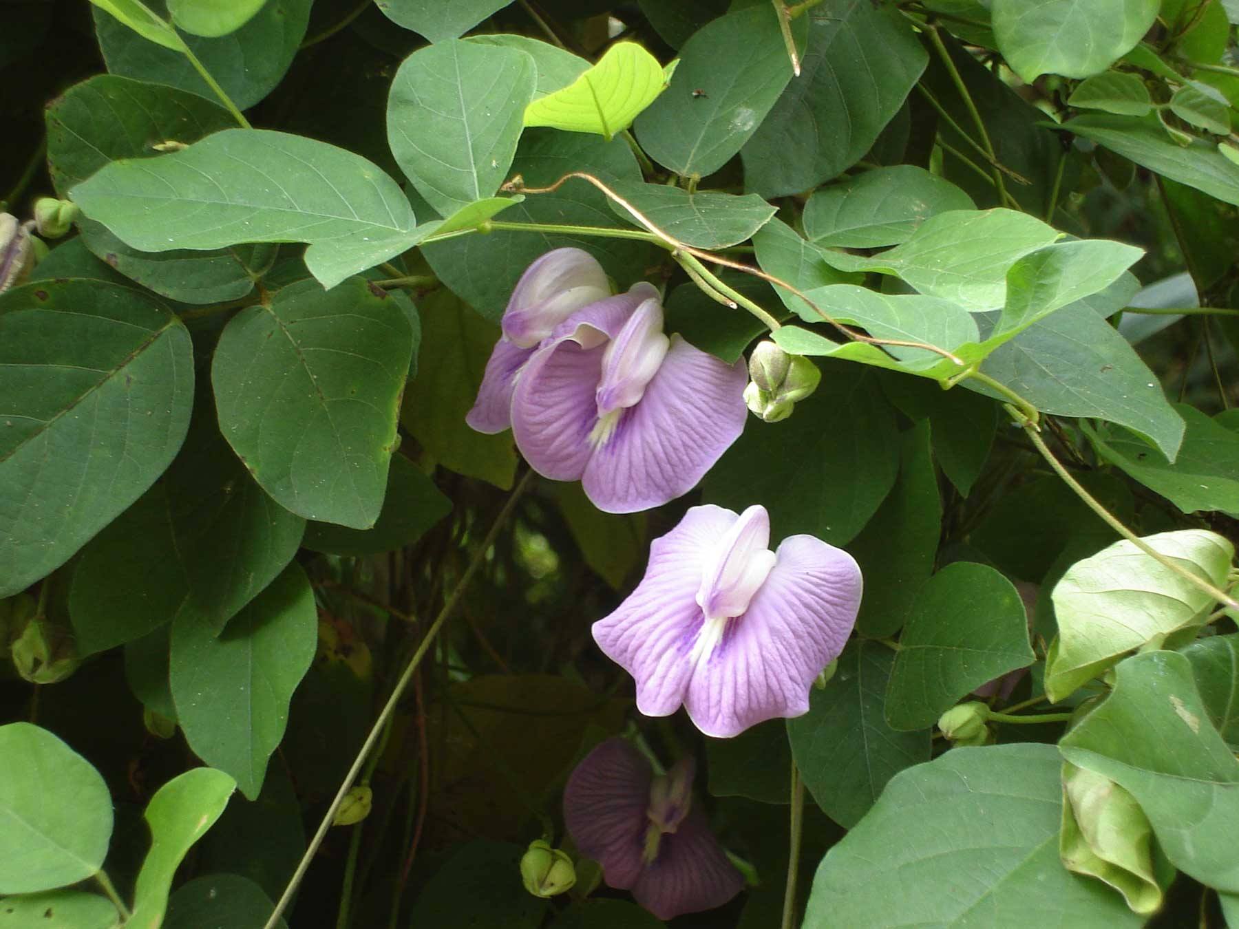 Centrosema pubescens; a weed in Tonga